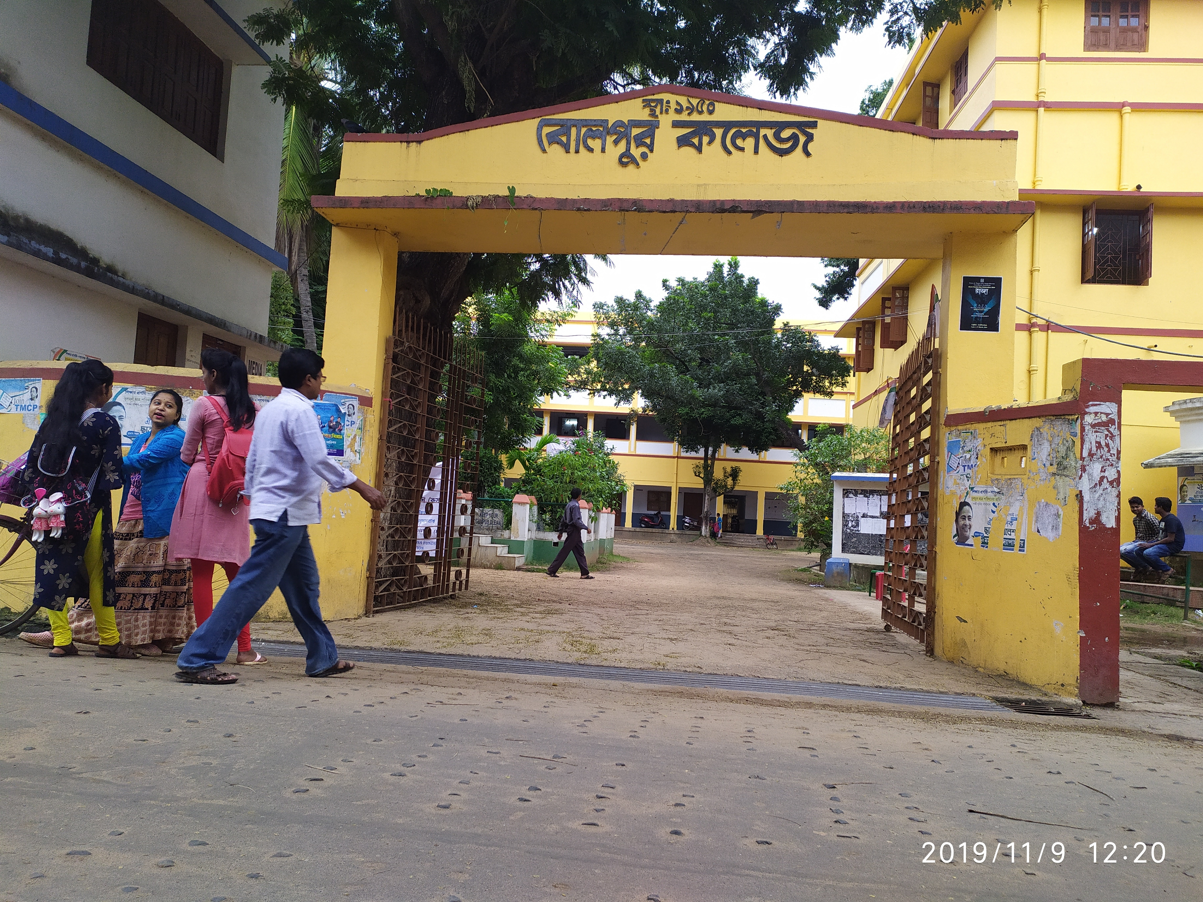 Bolpur college, bolpur college fornt gate, educational institution